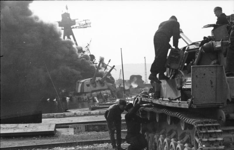 Information added by Wikimedia users.Probably the cruiser Colbert